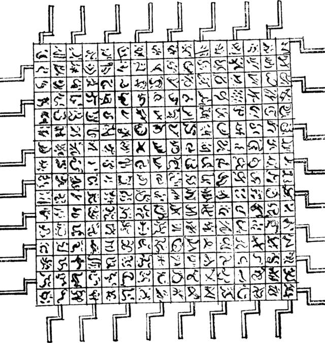 Description of the Engine, a speculative computational linguistic machine developed in Gulliver's Travel